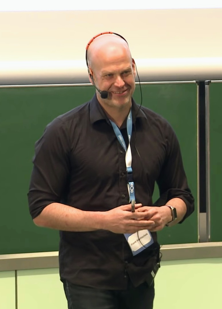 Nextcloud Conference 2018 Welcome talk by Nextcloud's Frank Karlitschek and guests.